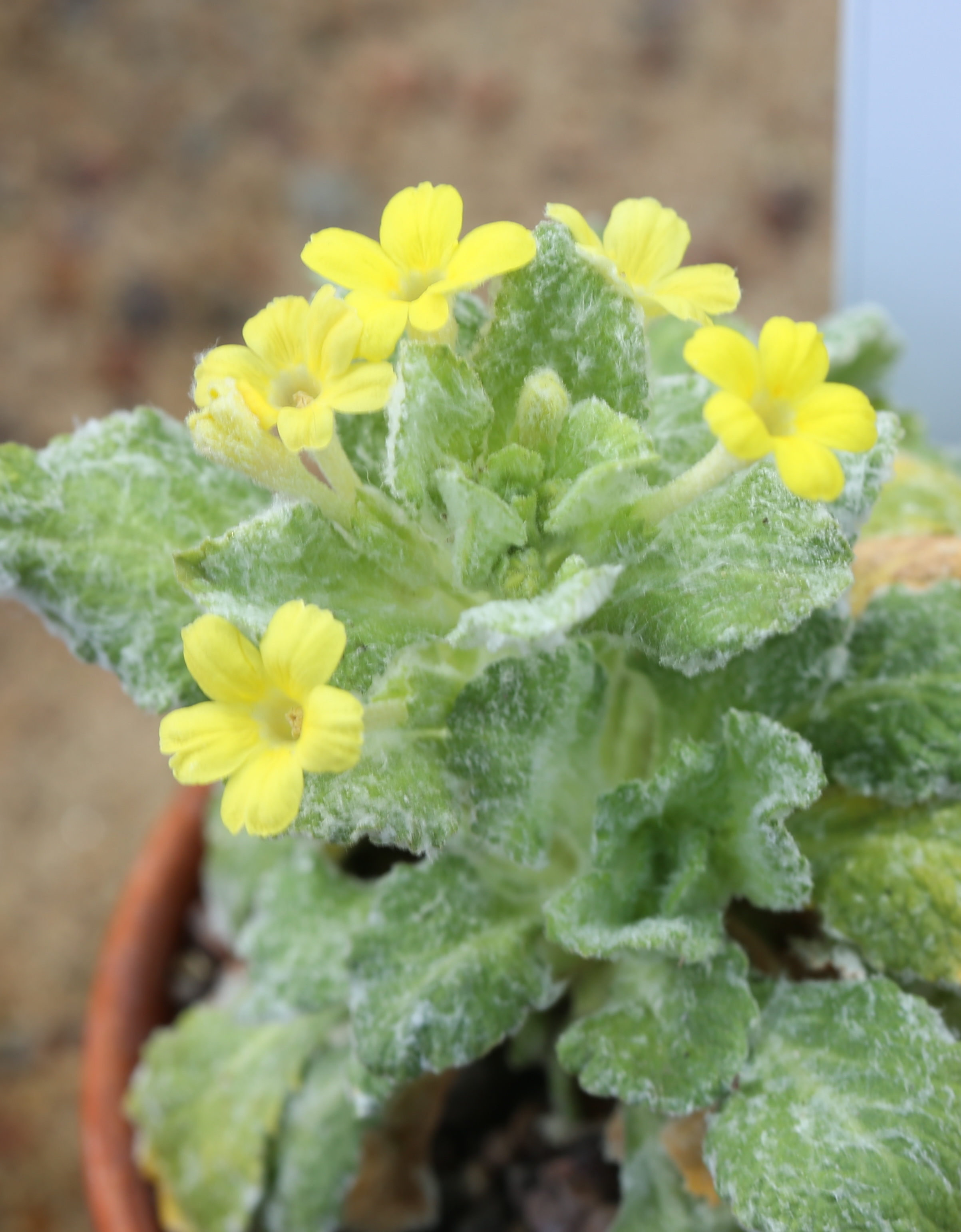 Dionysia balsamea at Gothenburg Botanical Garden 2015. Plant id: 2014-181 s G -- Kammerl.